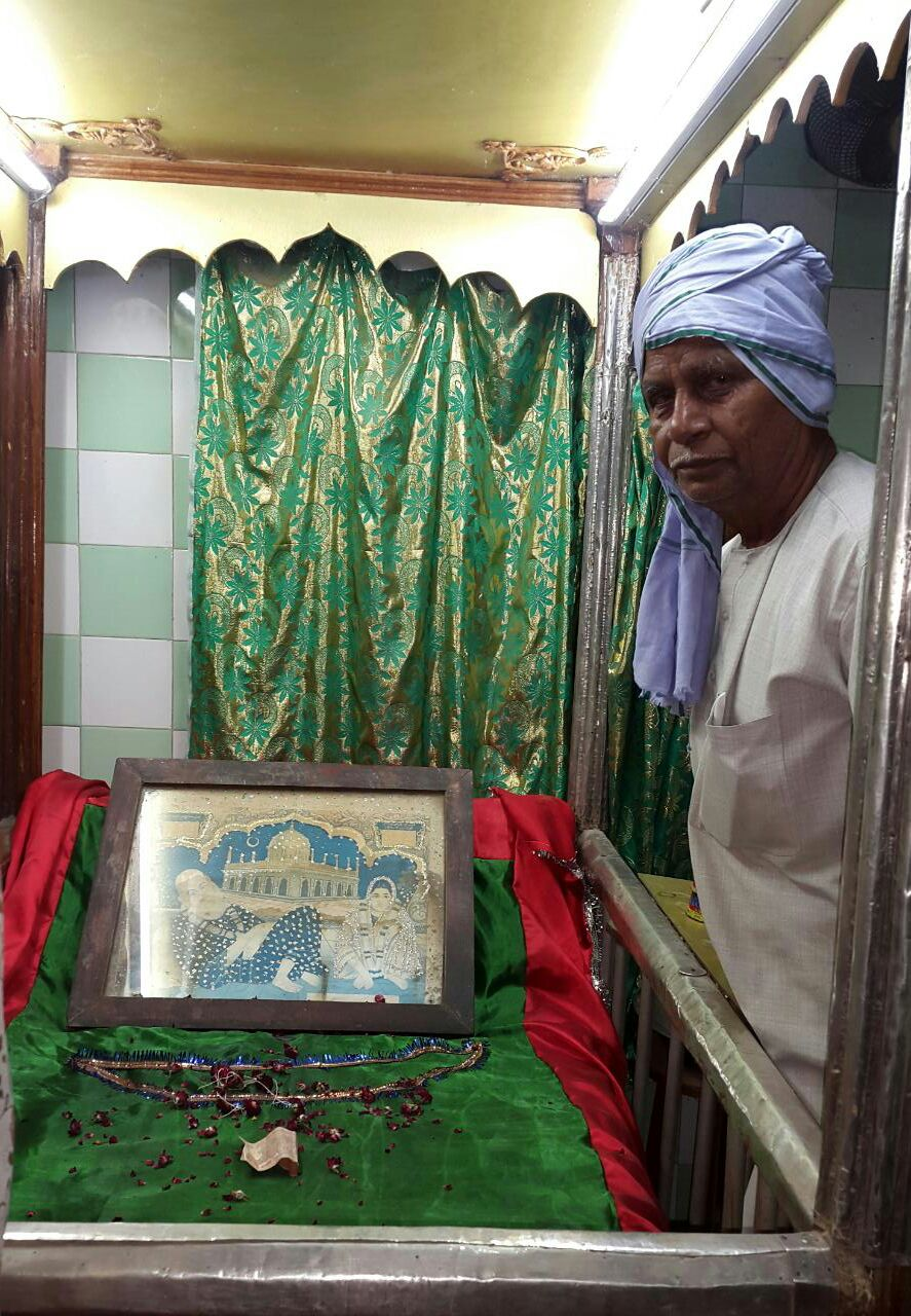 Taj Wale Baba, Heeraganj